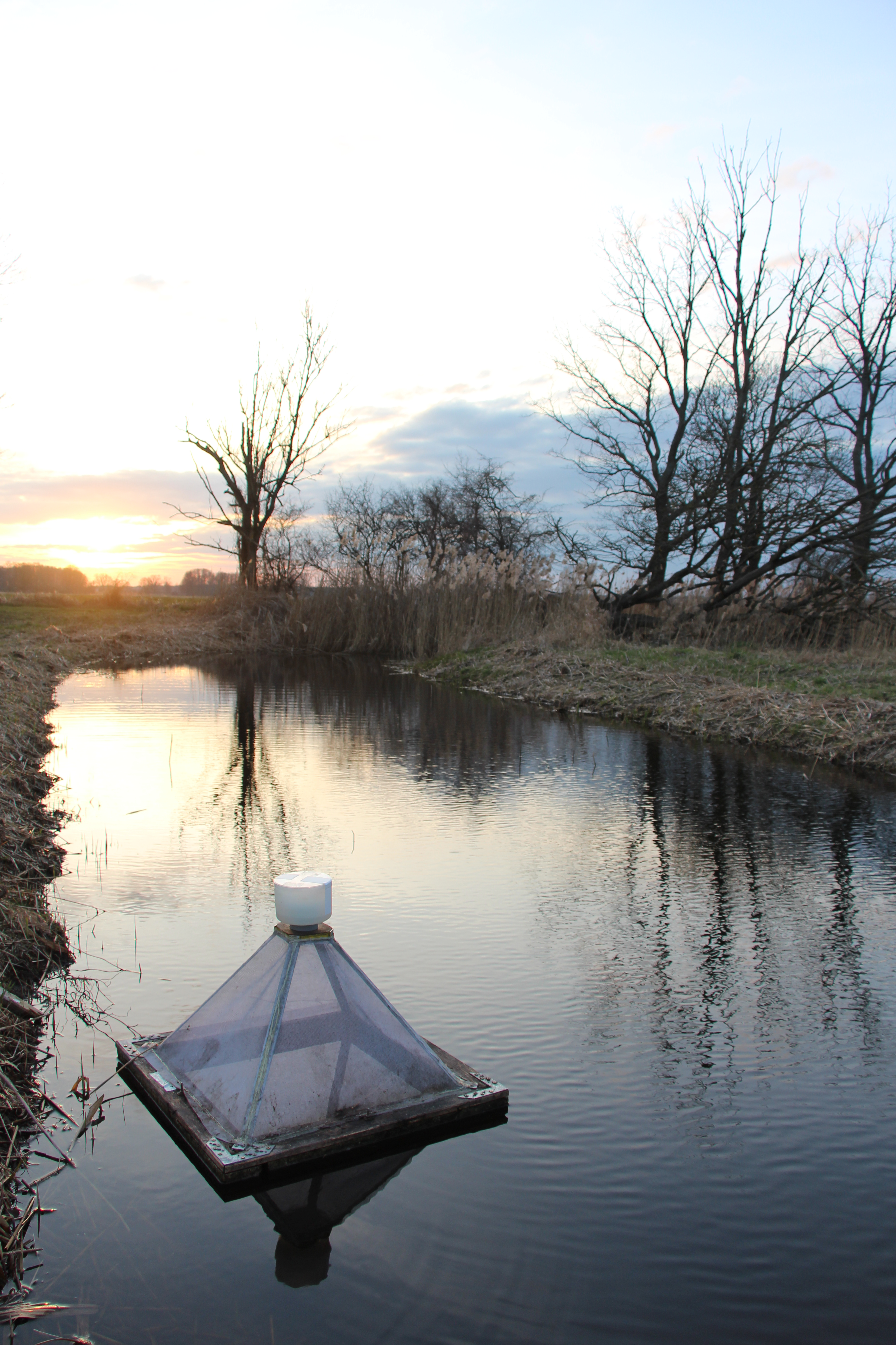 This floating, tent-like aquatic emergence trap is used to capture aquatic insects such as chironomids, caddisflies, mosquitoes, and odonates upon their transition from aquatic nymphs to terrestrial adults.